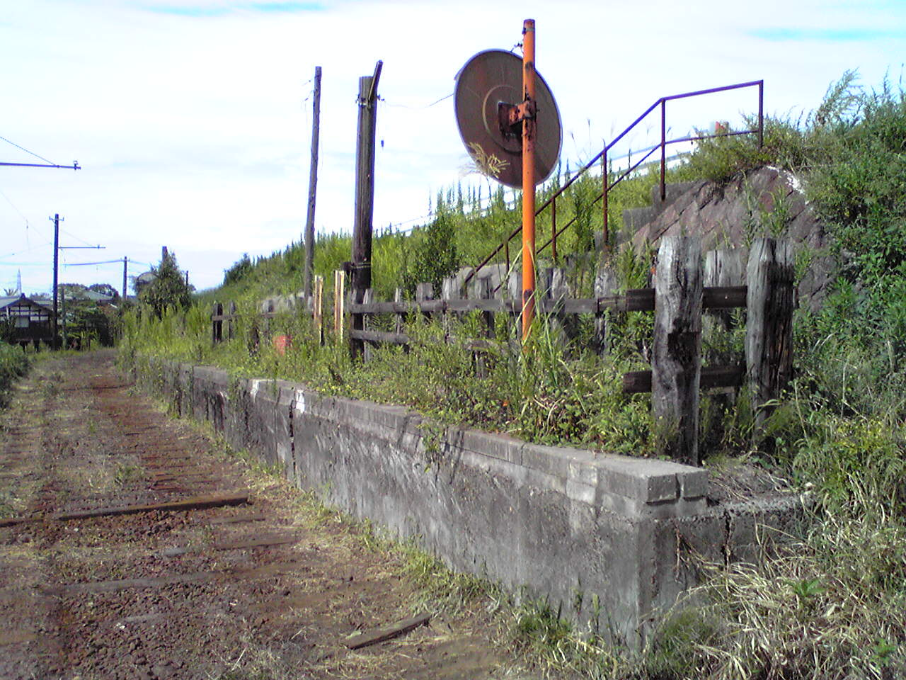 The platform which was left in the remains of Yoshie Station, Niigata Kotsu Railway which became the abolished line on April 5, 1999. This station became the abandoned station on April 5, 1999.